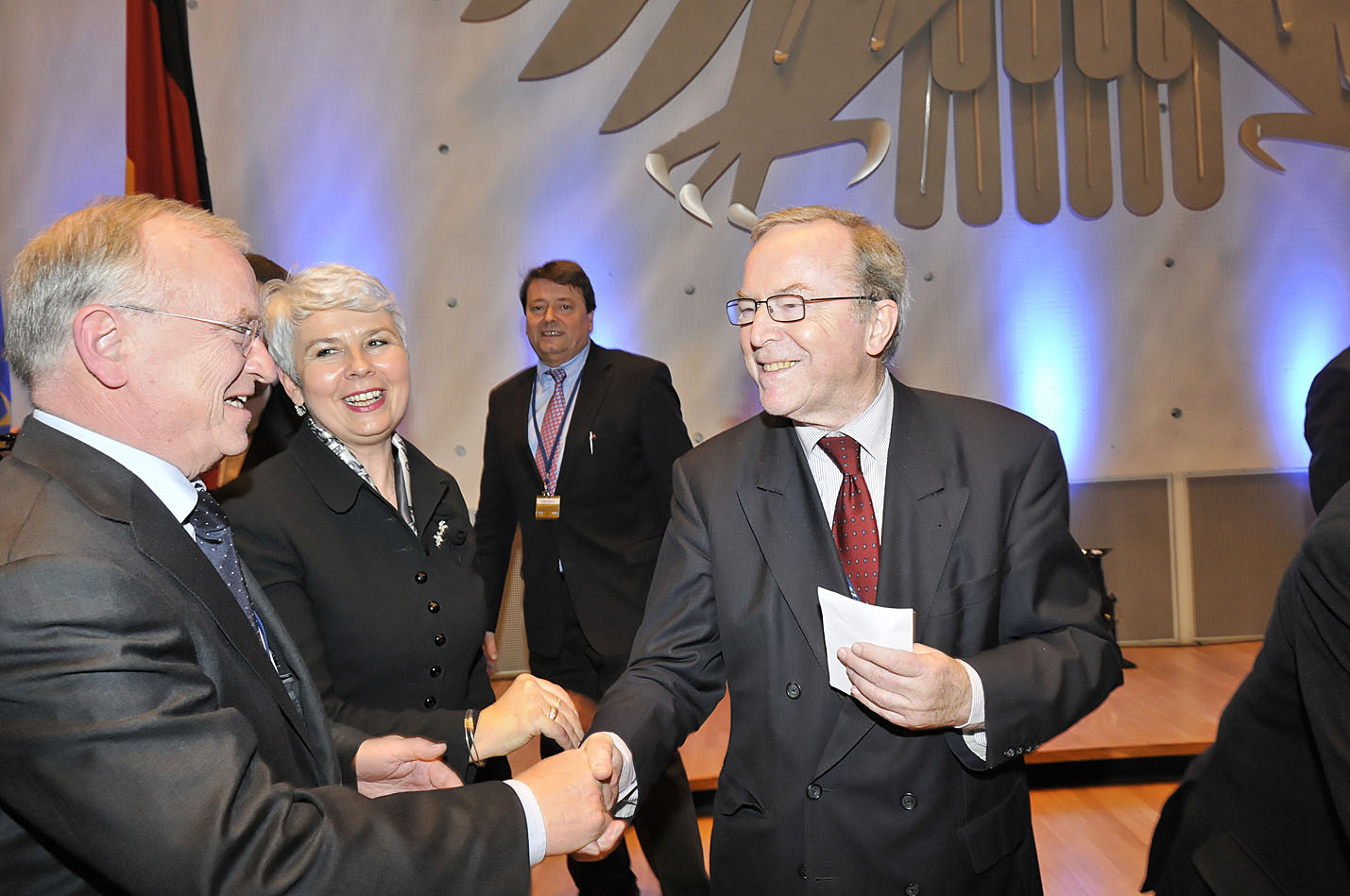 EPP Congress Bonn